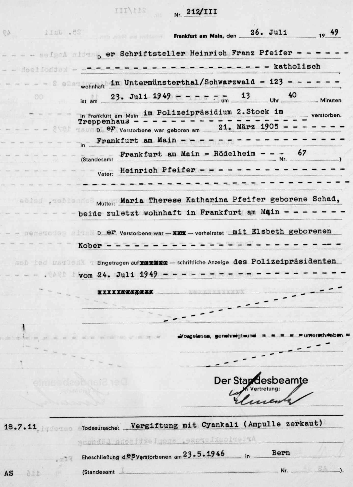 Death Certificate for the intelligence officer Heinrich Pfeifer (1907-1949), who committed suicide in the central police department of the city of Frankfurt after being arrested by the police in 1949 by means of chewing apart a capsule filled with potassium cyanide.